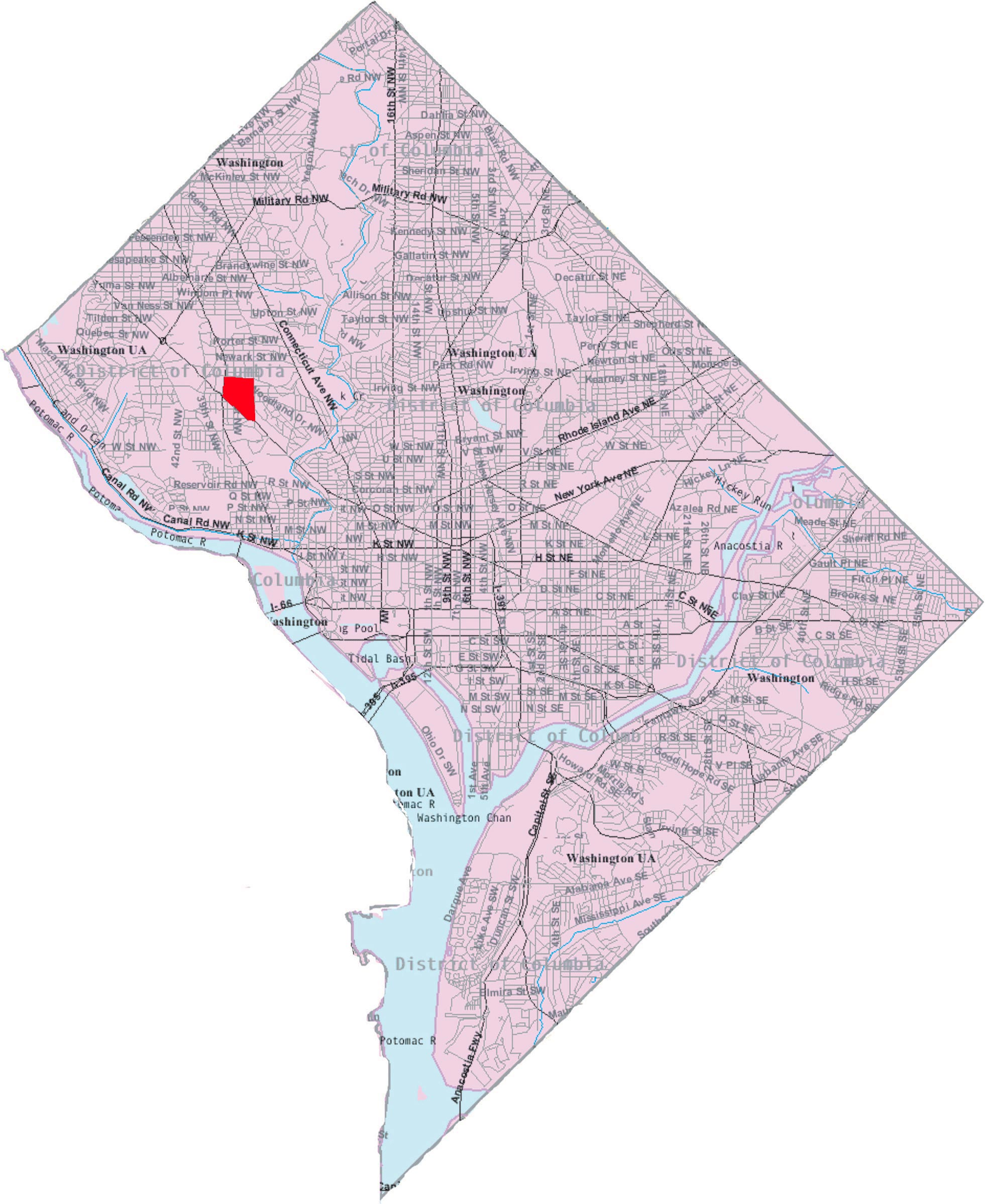 This image is a modified version of a self-generated reference map from the U.S. Census Bureau's American Factfinder at by Wikipedia user Msclguru.